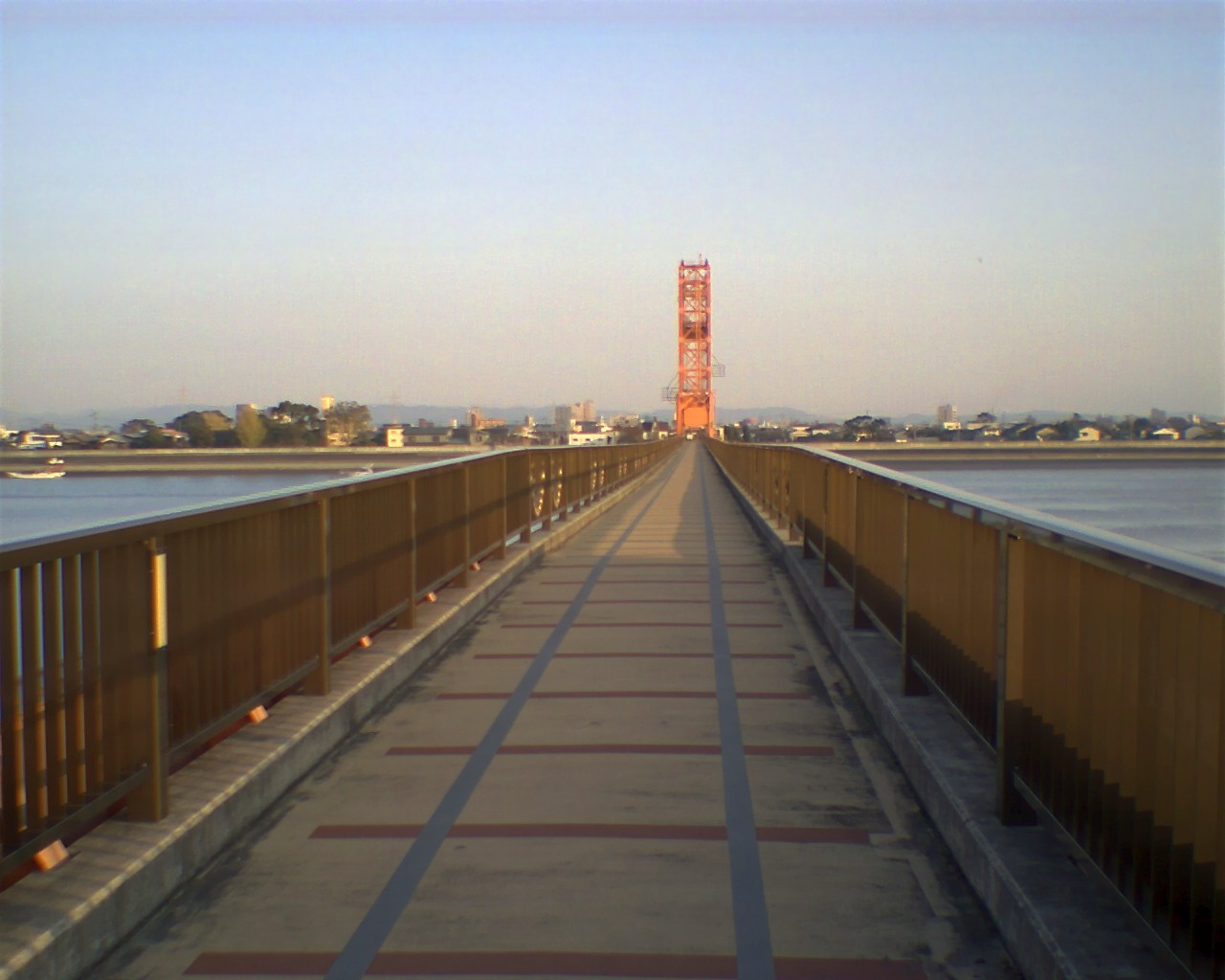 This photograph is one stroke of a "Chikugo River Lift Bridge".